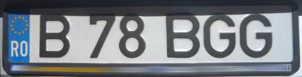 Romanian EU licence plate as seen in 2007.